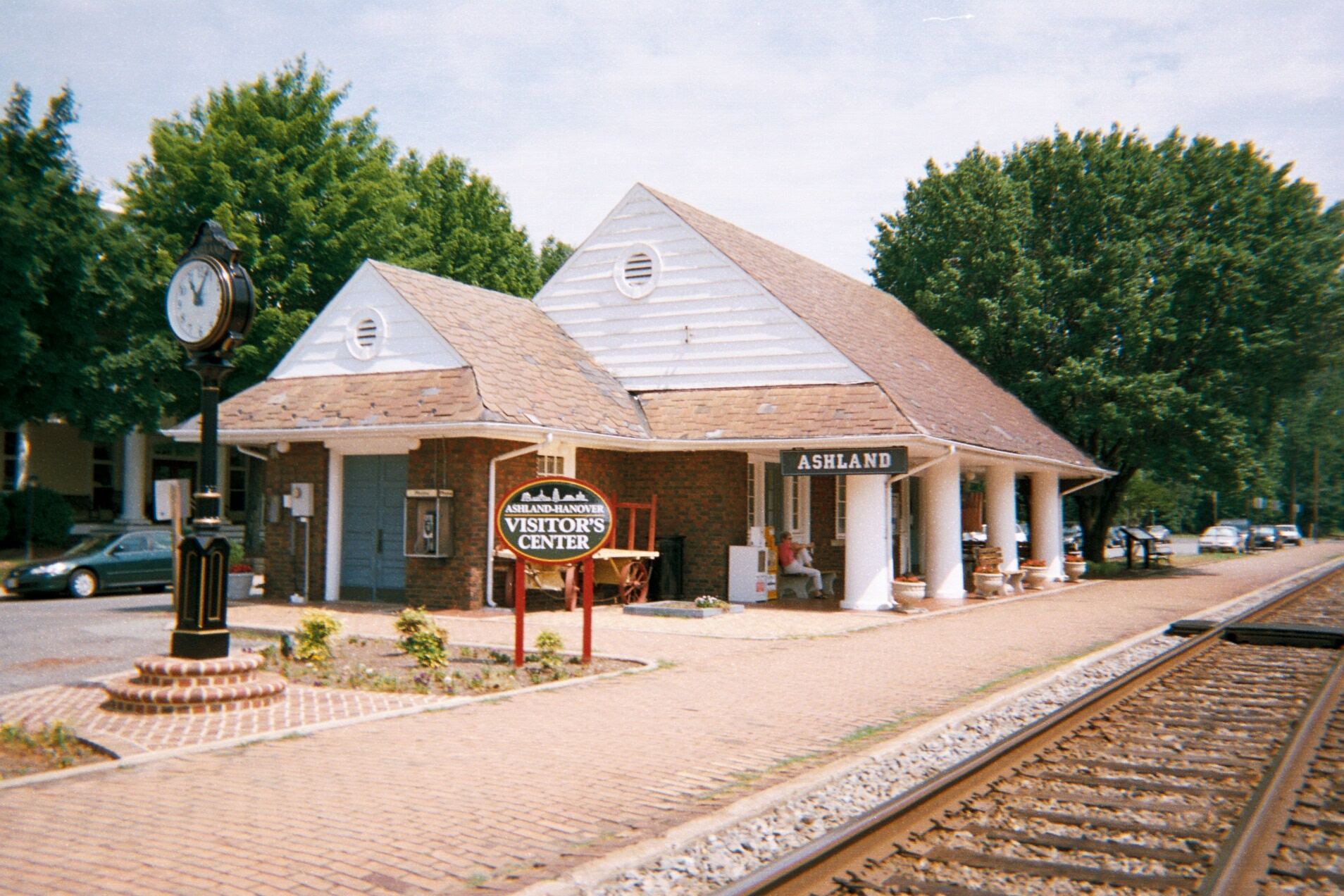 Ashland, Virginia's Amtrak station, which was originally built by the Richmond, Fredericksburg and Potomac Railroad, and restored as both an active station and the local visitor's center.